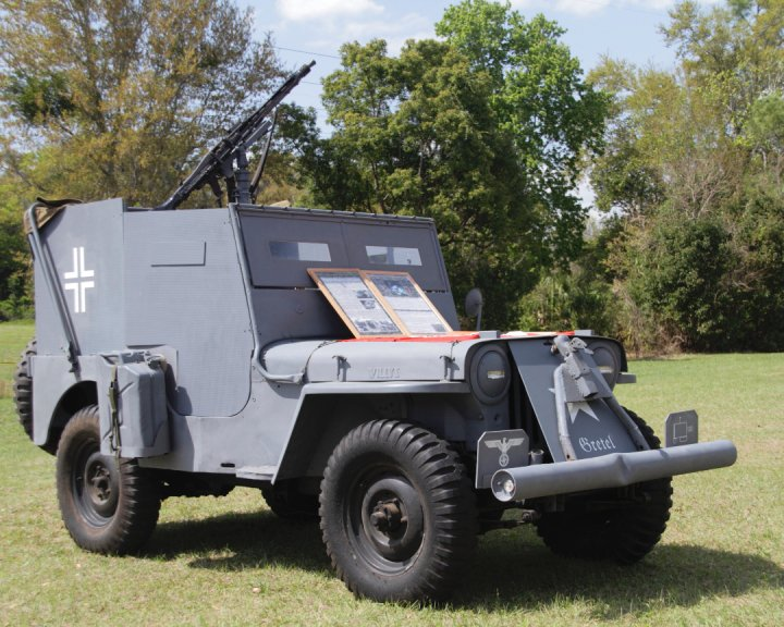 An armored jeep. During the Second World War, American forces experimented with the concept of armoring jeeps for the purposes of reconnaissance. This particular reenactment vehicle was experimental in nature and designed to represent a possible German capture of an American armored jeep from the 82nd Airborne Division during the Battle of the Bulge. It has since been restored to its original unarmored and olive green state.